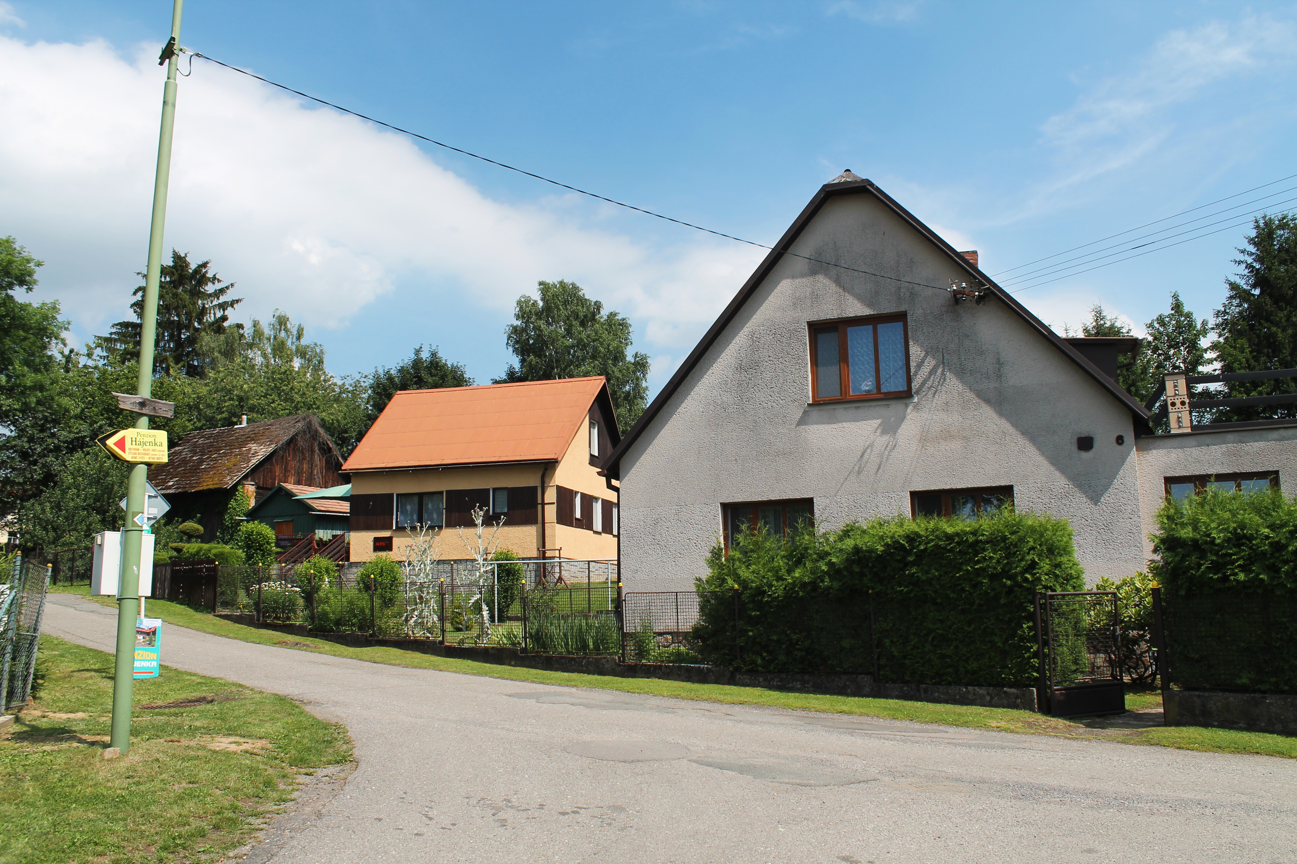 Ústup, Seč, Chrudim District, Czech Republic